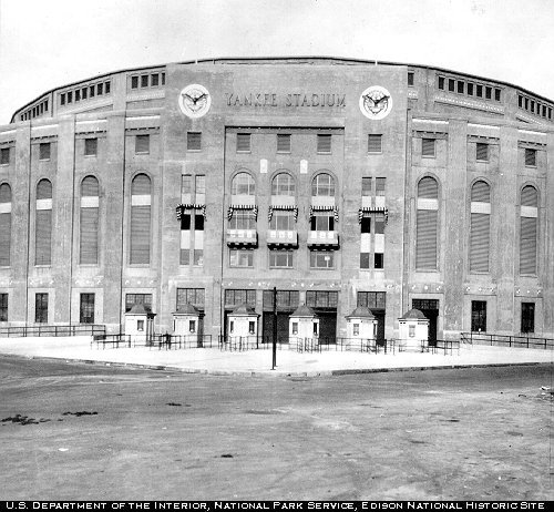 Yankee Stadium, New York, built with Edison Portland Cement, main entrance. 08.110/2